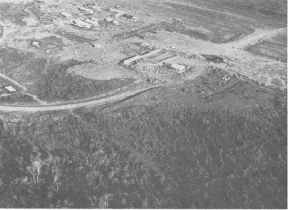 This photograph showed the Kham Duc Special Forces Camp, as seen from the air.